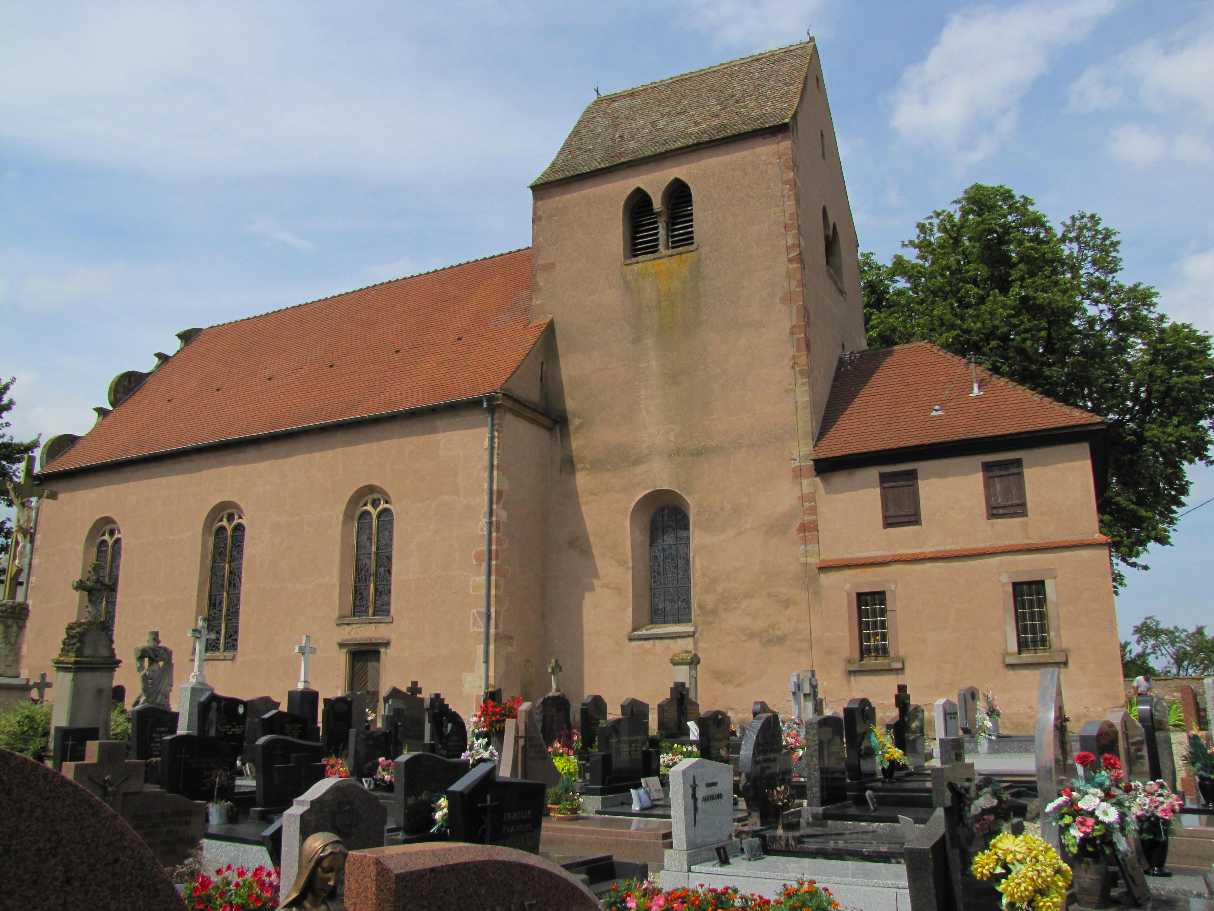 Alsace, Bas-Rhin, Hipsheim, Chapelle Saint-Ludan (1492-1723): It is indexed in the Base Mérimée, a database of architectural heritage maintained by the French Ministry of Culture, under the references PA00084746 and IA00023344.